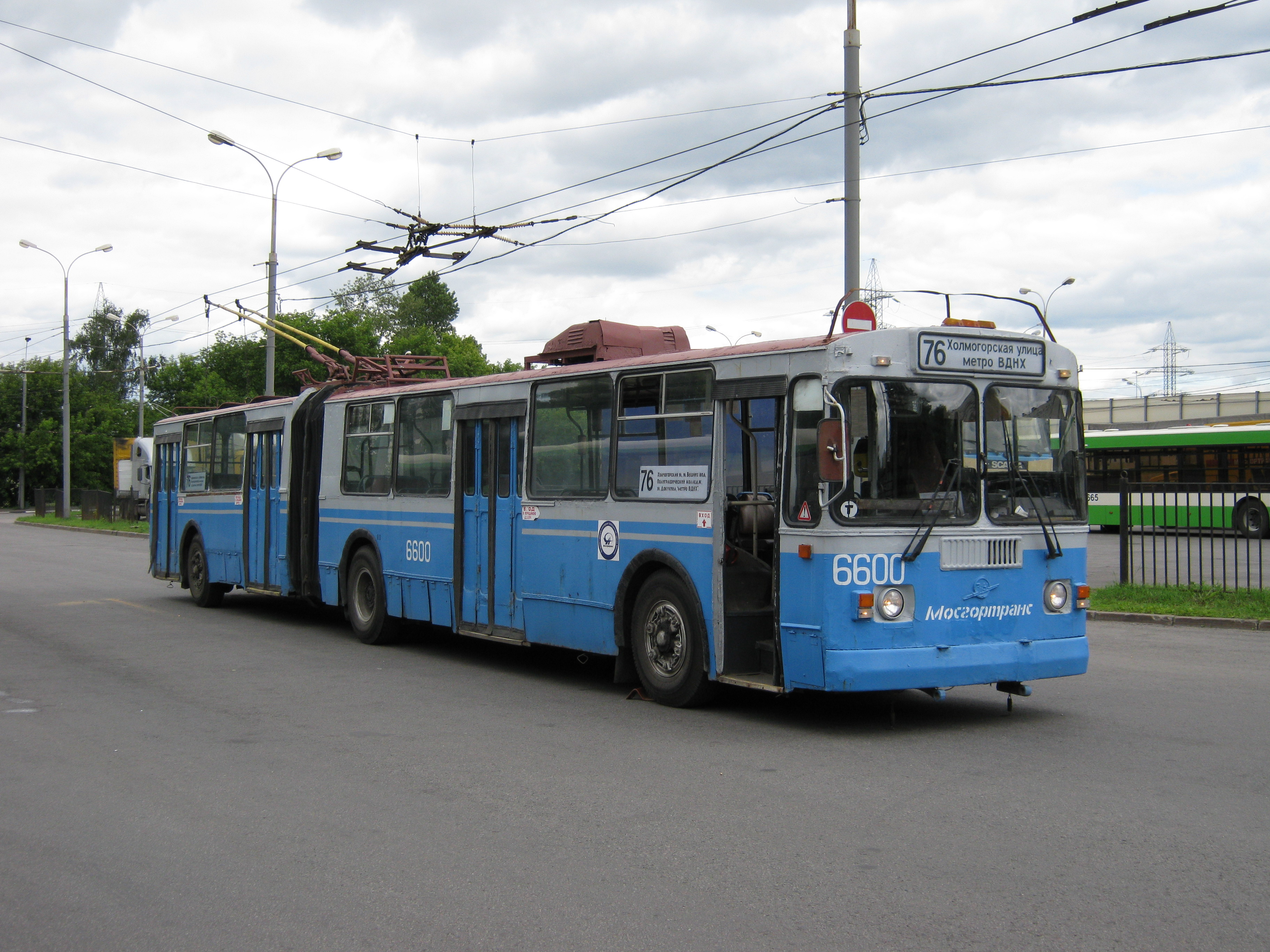 Troll ZiU-6205 #6600 in Moscow . Kholmogorskaya street .